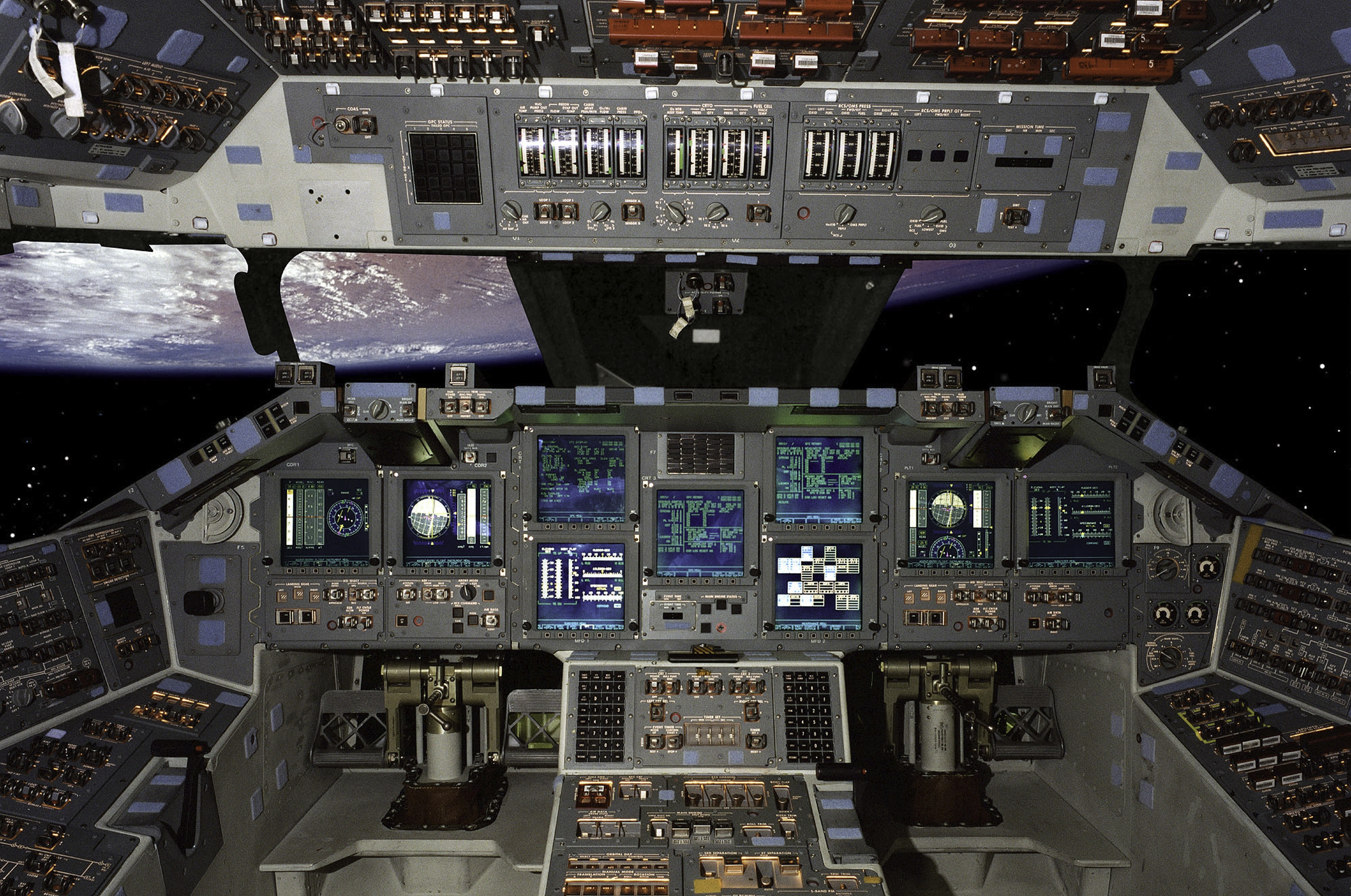 The "glass cockpit" installed on the Space Shuttle: JSC2000-E-10522 (March 2000) -- Eleven new full-color, flat-panel display screens in the Shuttle cockpit replace 32 gauges and electromechanical displays and four cathode-ray tube displays. The new "glass cockpit" is 75 pounds (34 kg) lighter and uses less power than before, and its color displays provide easier pilot recognition of key functions. The new cockpit is expected to be installed on all shuttles in the NASA fleet by 2002, and it sets the stage for the next cockpit improvement planned to fly by 2005: a "smart cockpit" that reduces the pilot's workload during critical periods. During STS-101 Atlantis will fly as the most updated shuttle ever, with more than 100 new modifications incorporated during a ten-month period in 1998 at Boeing's Palmdale, Ca., Shuttle factory. Note: this is a composite image that was published prior to this cockpit configuration ever flying. The control sticks and seats are missing. The background was photoshopped from a separate image.